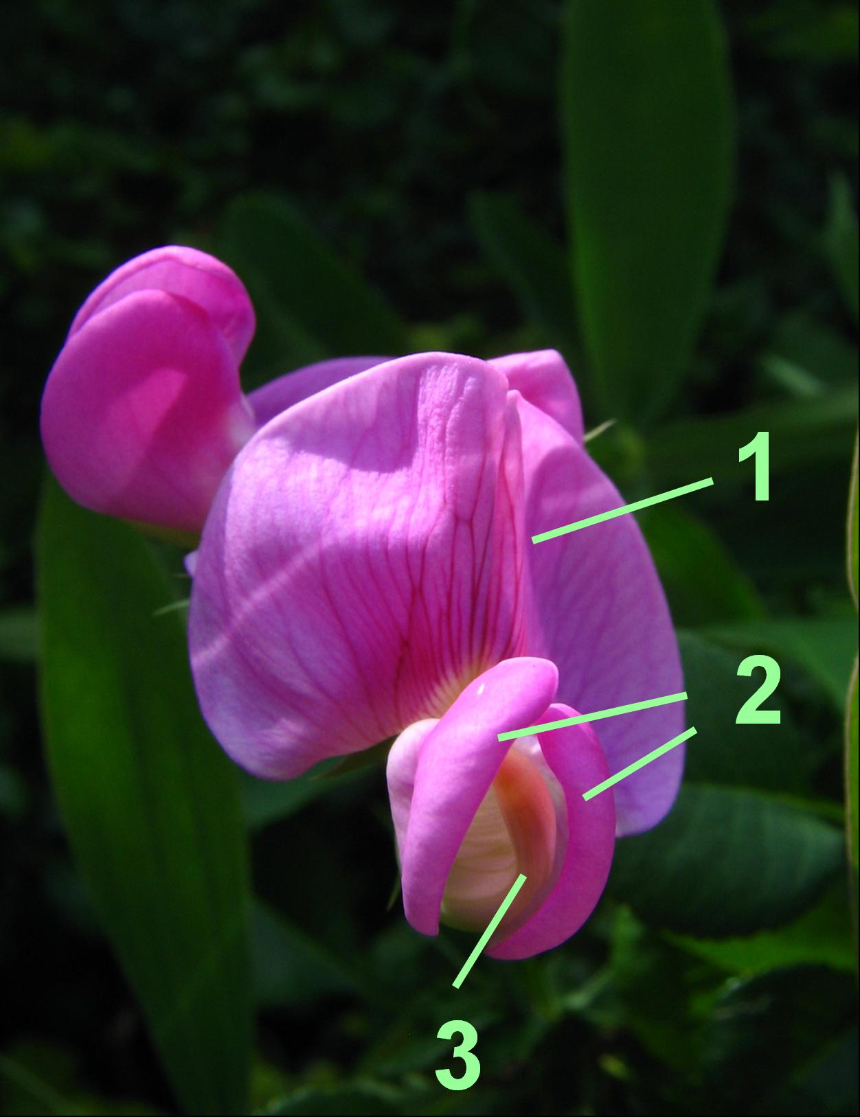 This picture shows three types of petals owned by Faboideae flower. 1. Banner, 2. Wing, 3. Keel.